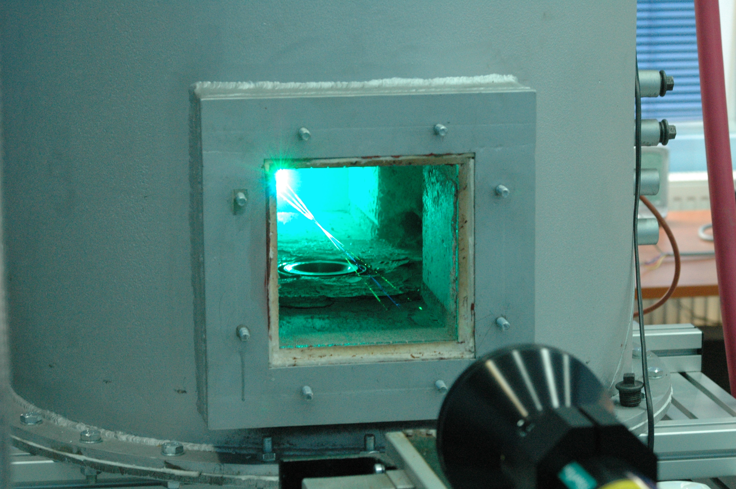 LDA facility operating at Laboratory of Gas Technology (Poznan University of Technology)